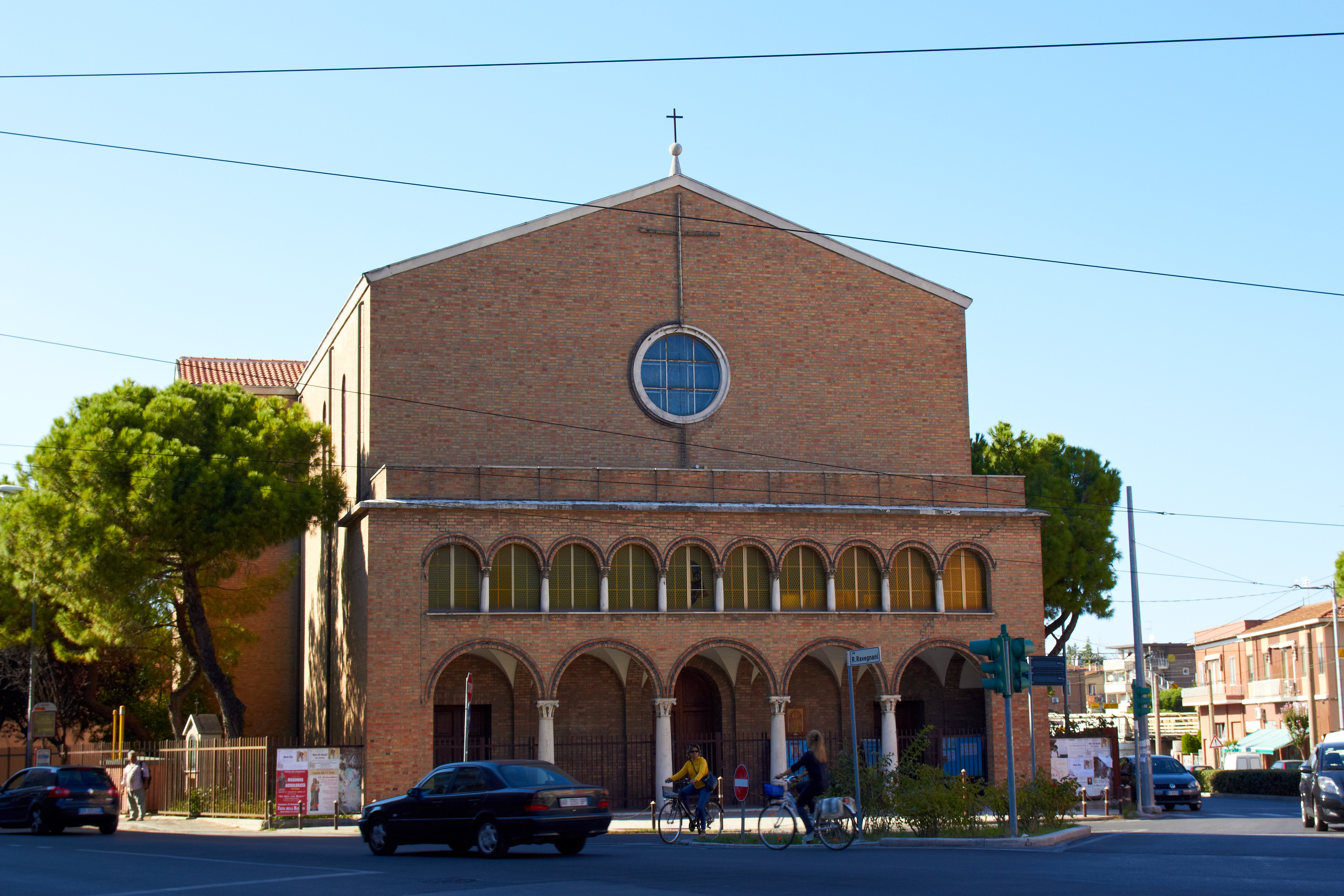 Rimini, Italy